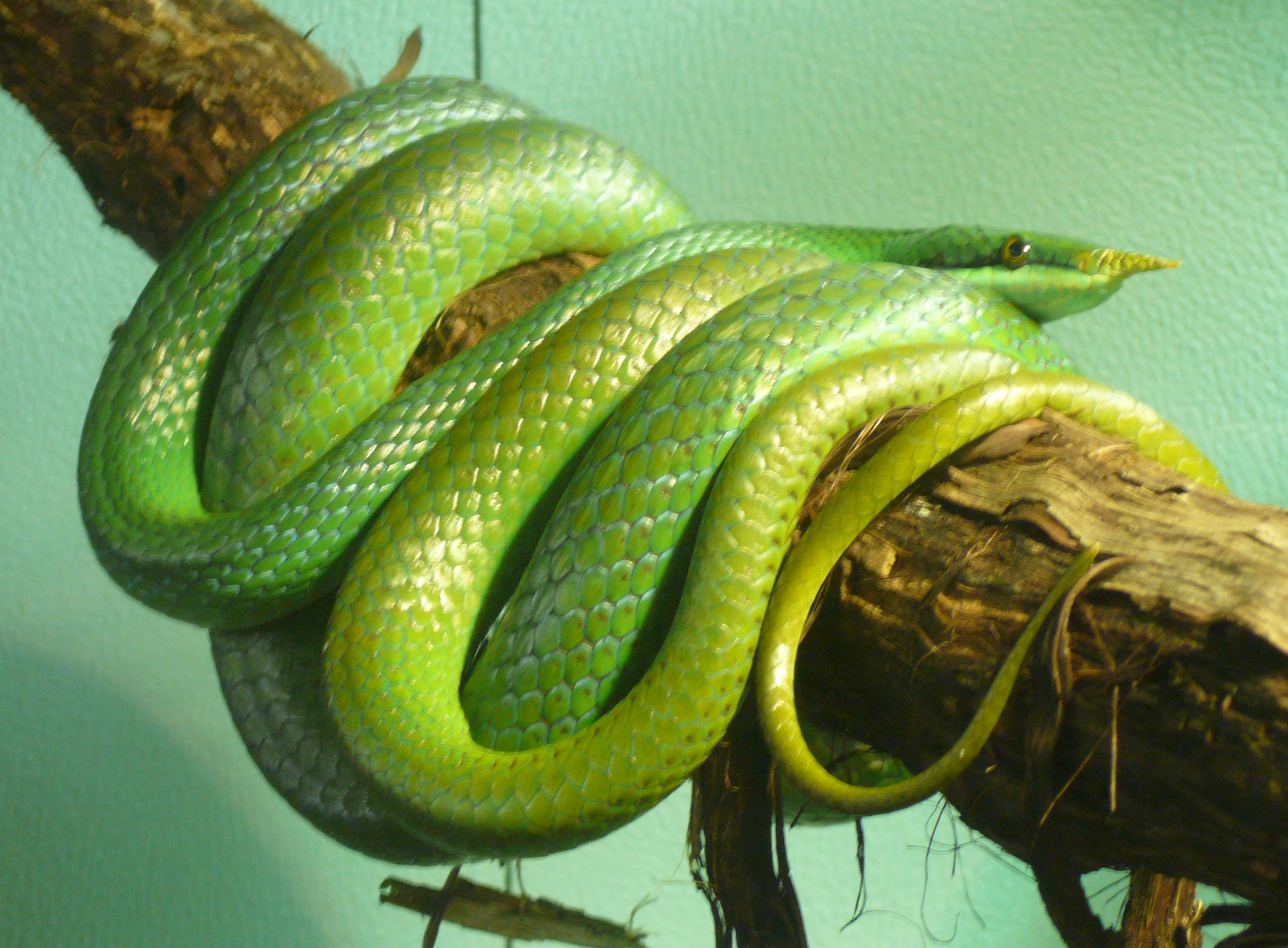 Vietnamese long-nosed snake (Rhynchophis boulengeri)